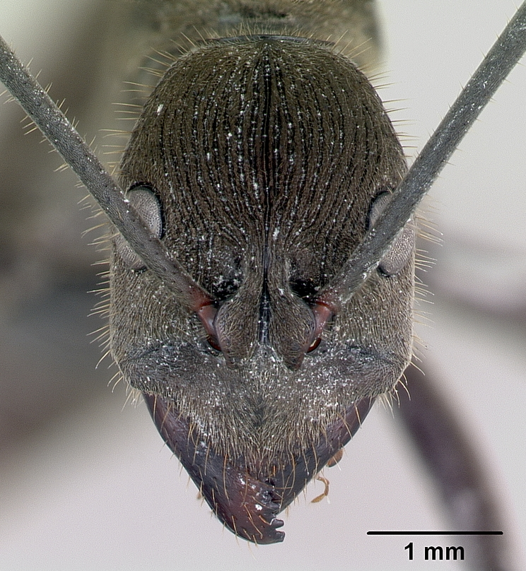 Head view of ant Diacamma scalpratum specimen casent0173640.